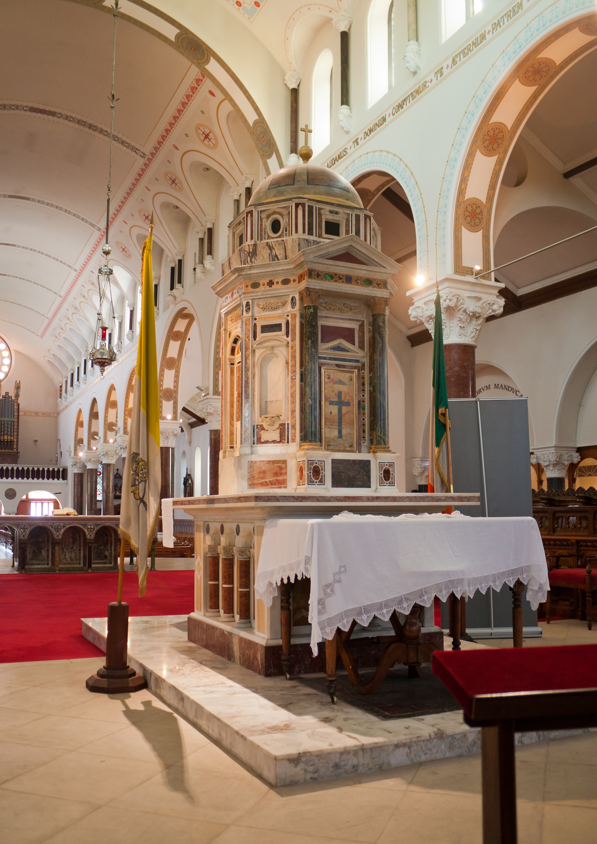 Tabernacle in the choir of the cathedral. This is assumed to be the work of Giacomo della Porta (1537–1602) which was originally created for the Church of Gesù in Rome where it remained for 300 years before it was replaced. Archbishop Patrick Leahy bought it while staying in Rome for the First Vatican Council. In Ireland, Connemara marble was used to replace the original tuffo stone. See Peter Galloway: The Cathedrals of Ireland, p. 204–205. Giacomo della Porta (1532–1602) Alternative names Giacomo Della PortaDescription architect and sculptorDate of birth/death circa 1532-1541 circa 1602 date QS:P,+1602-00-00T00:00:00Z/9,P1480,Q5727902Location of birth/death Porlezza, Lombardy RomeWork period1562-1602Work location Rome Authority control : Q175566 VIAF: 121738475 ISNI: 0000 0000 8190 1863 ULAN: 500025366 LCCN: n97056239 GND: 118977326 WorldCat creator QS:P170,Q175566